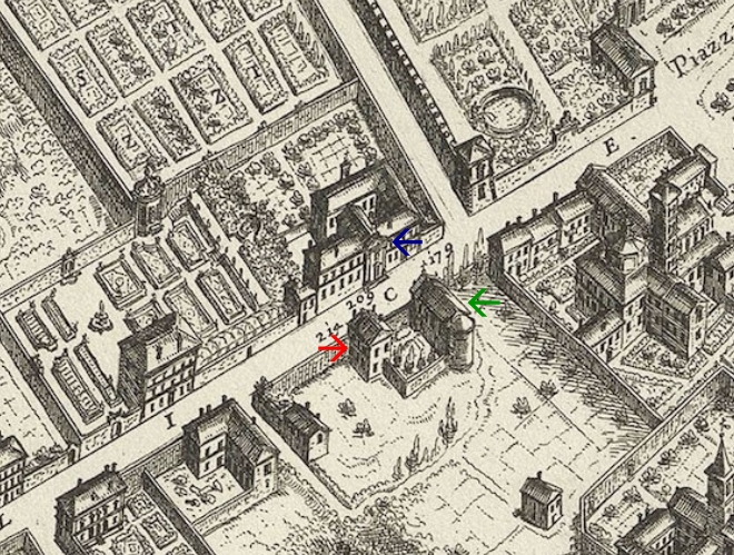 Churches of San Paolo Primo Eremita (red arrow), San Norberto all'Esquilino (blue arrow) and Santa Maria della Sanità (green arrow) on Giovanni Battista Falda's map of Rome from 1676.